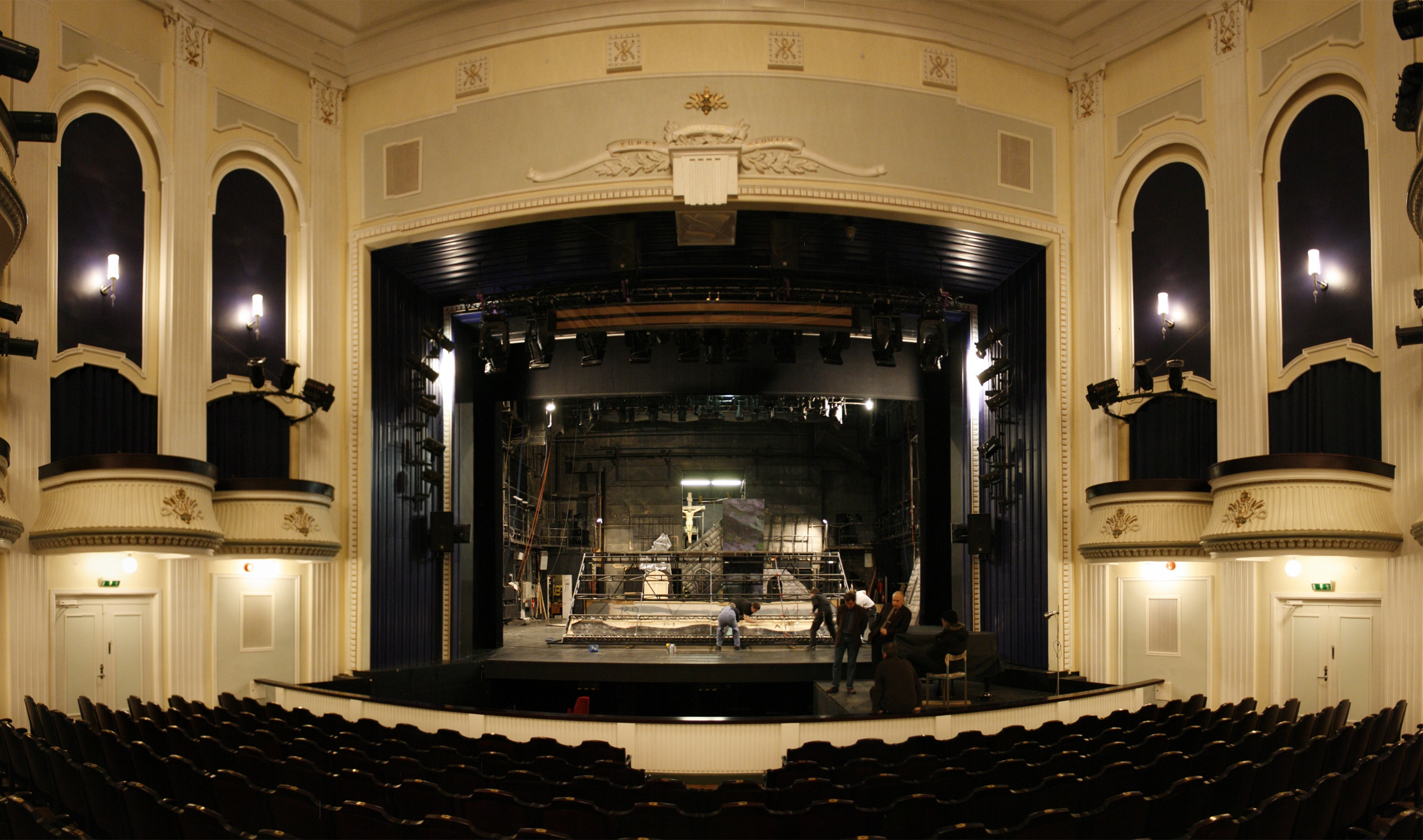 Estonia Theater 1913 (Armas Lindgren & Wivi Lönn), rebuild after WW II (Alar Kotlin & E. J. Kuusik)